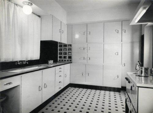 Cubex in situation